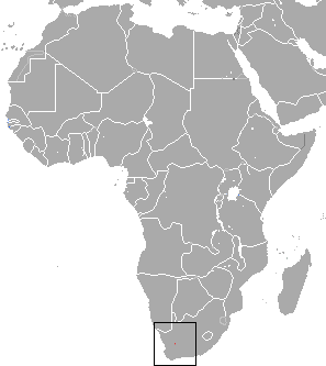 Visagie's Golden Mole (Chrysochloris visagiei) range